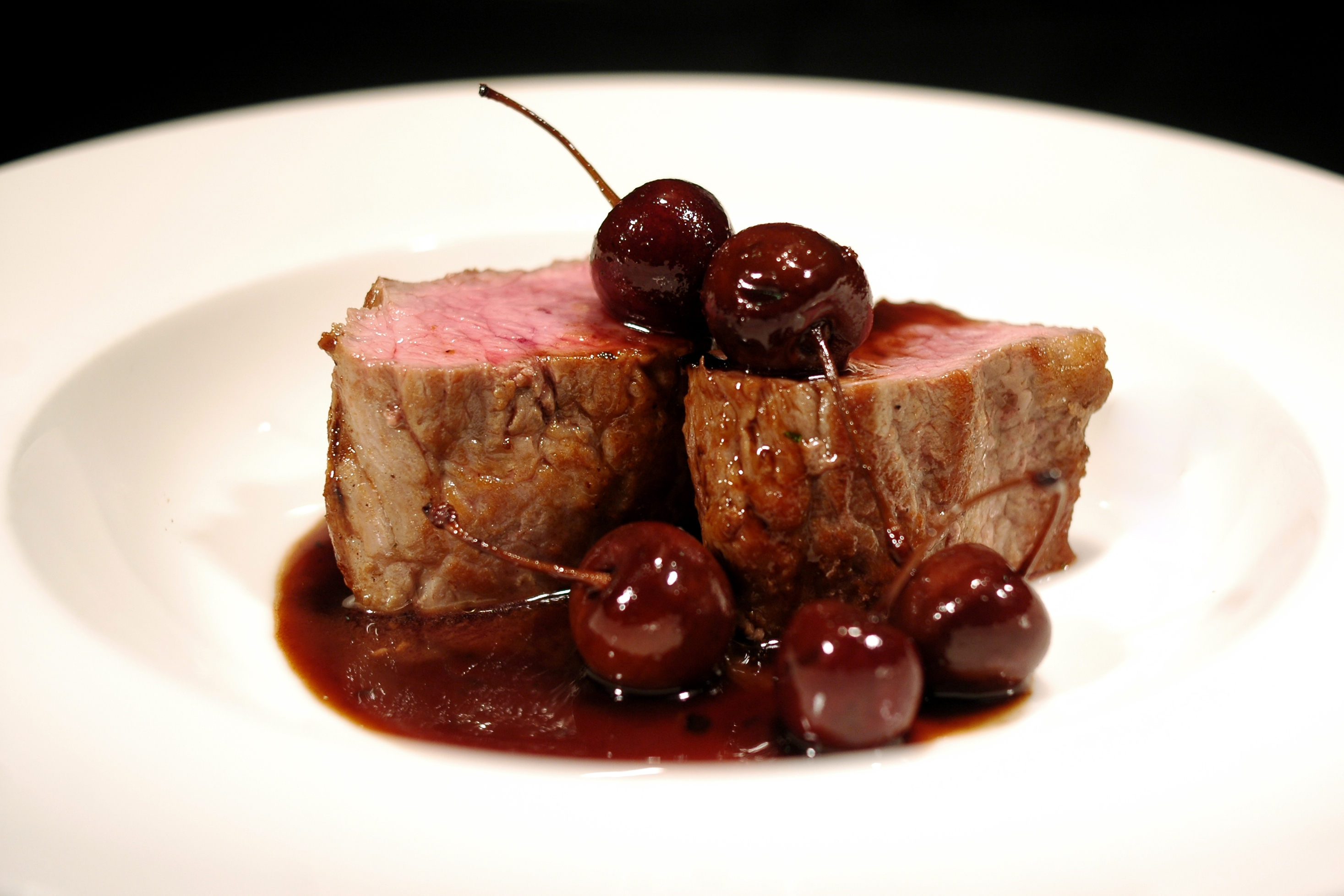 Restaurante RiFF, Valencia.